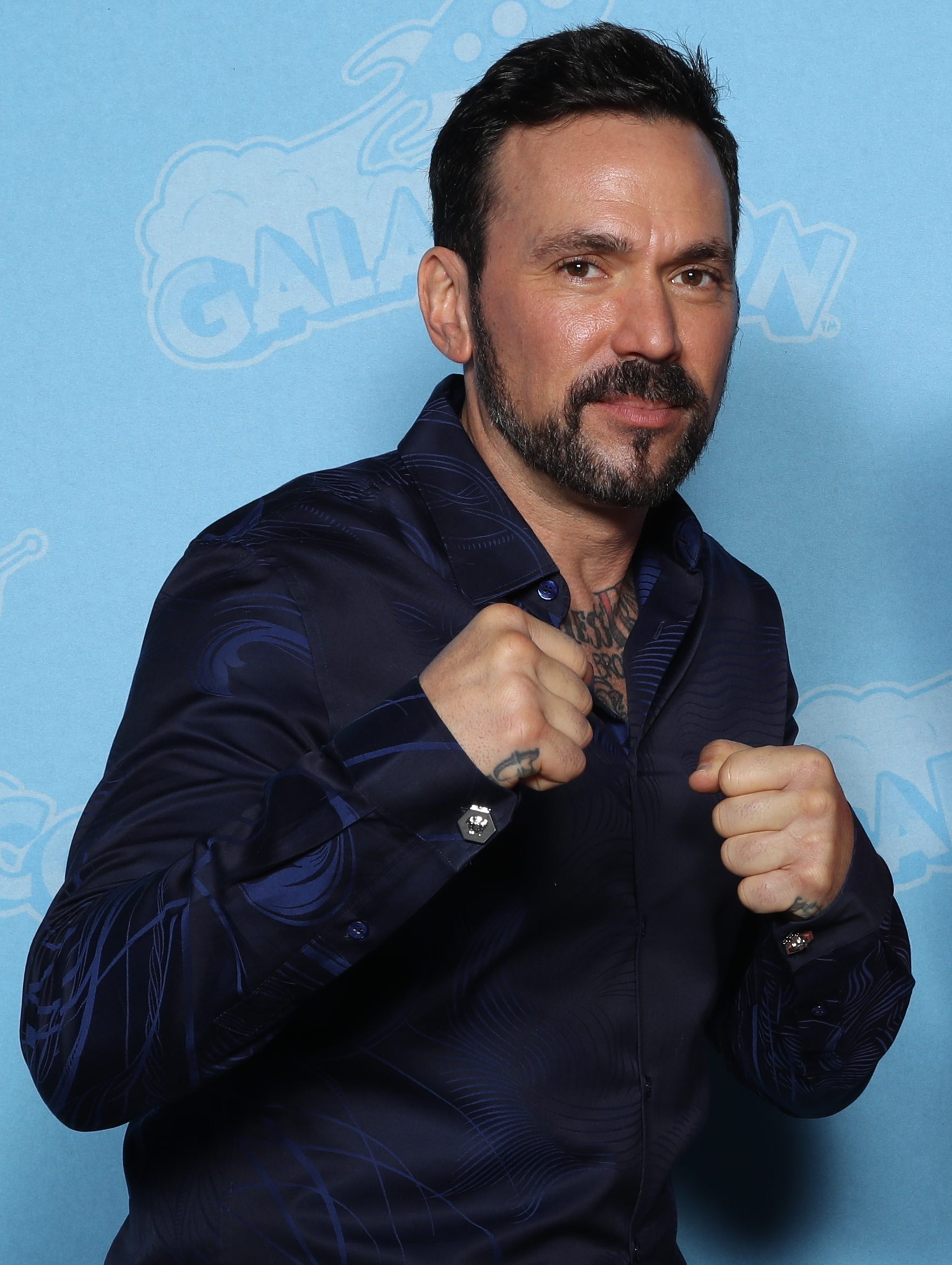 Jason David Frank at GalaxyCon Raleigh in 2019